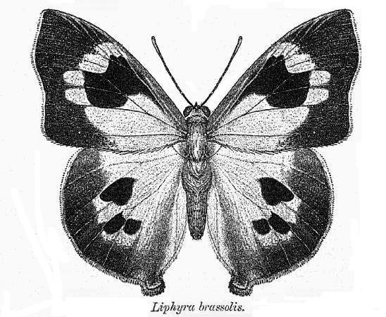 Liphyra brassolis Westwood, 1864